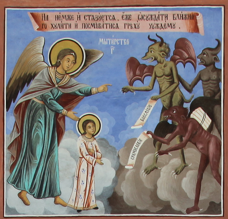 Devils at an aerial toll house, Rila monastery fresco. "At left is the accompanying angel, and beside him the Christian soul. At right are demons holding scrolls showing the sins examined at that tollhouse. The white inscription at top center reads; МЫТАРСТВО Г Muitarstvo 3 (remember that Cyrillic letters can be used as numbers). Muitarstvo means "tollhouse" (plural мытарства — muitarstva). So this illustration depicts Tollhouse #3. The word on the red demon's scroll — СРАМОСЛОВИЕ (Sramoslovie) tells us he is checking for obscene speech, and the grey demon's scroll reads for foolish speech — БУЕСЛОВИЕ — (Bueslovie)." (source)